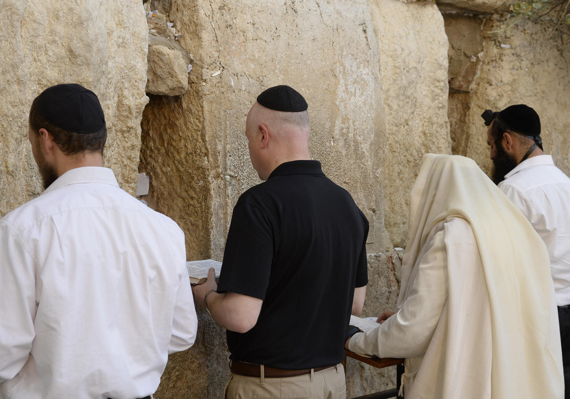 President Trump's Special Representative for International Negotiations Jason Greenblatt toured the Gaza periphery area, visited Ziv Hospital in Safed, and the Old City of Jerusalem, August 29-30, 2017.